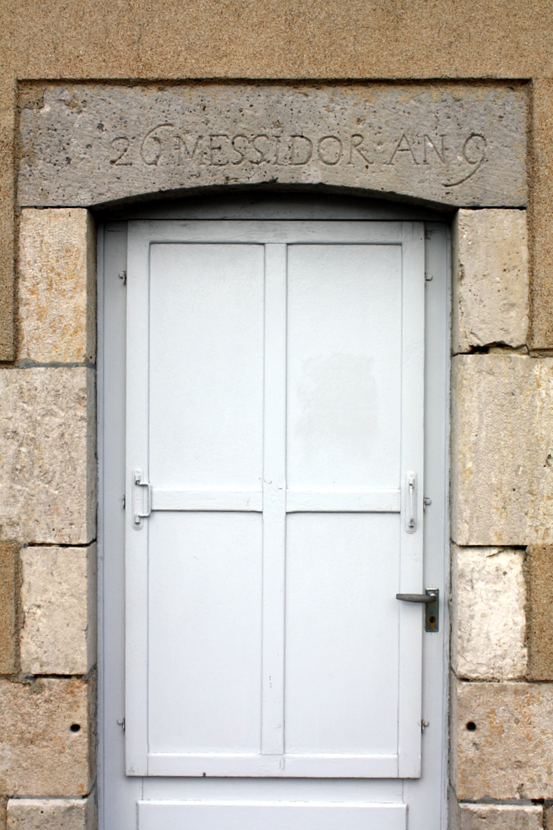 « Salle Messidor » place